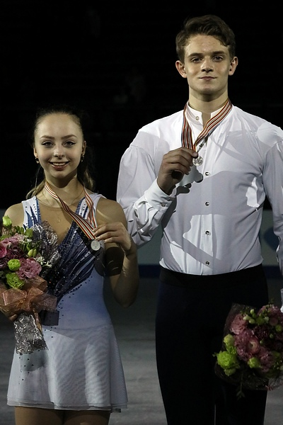 Aleksandra Boikova and Dmitrii Kozlovskii at the Junior Worlds in 2017